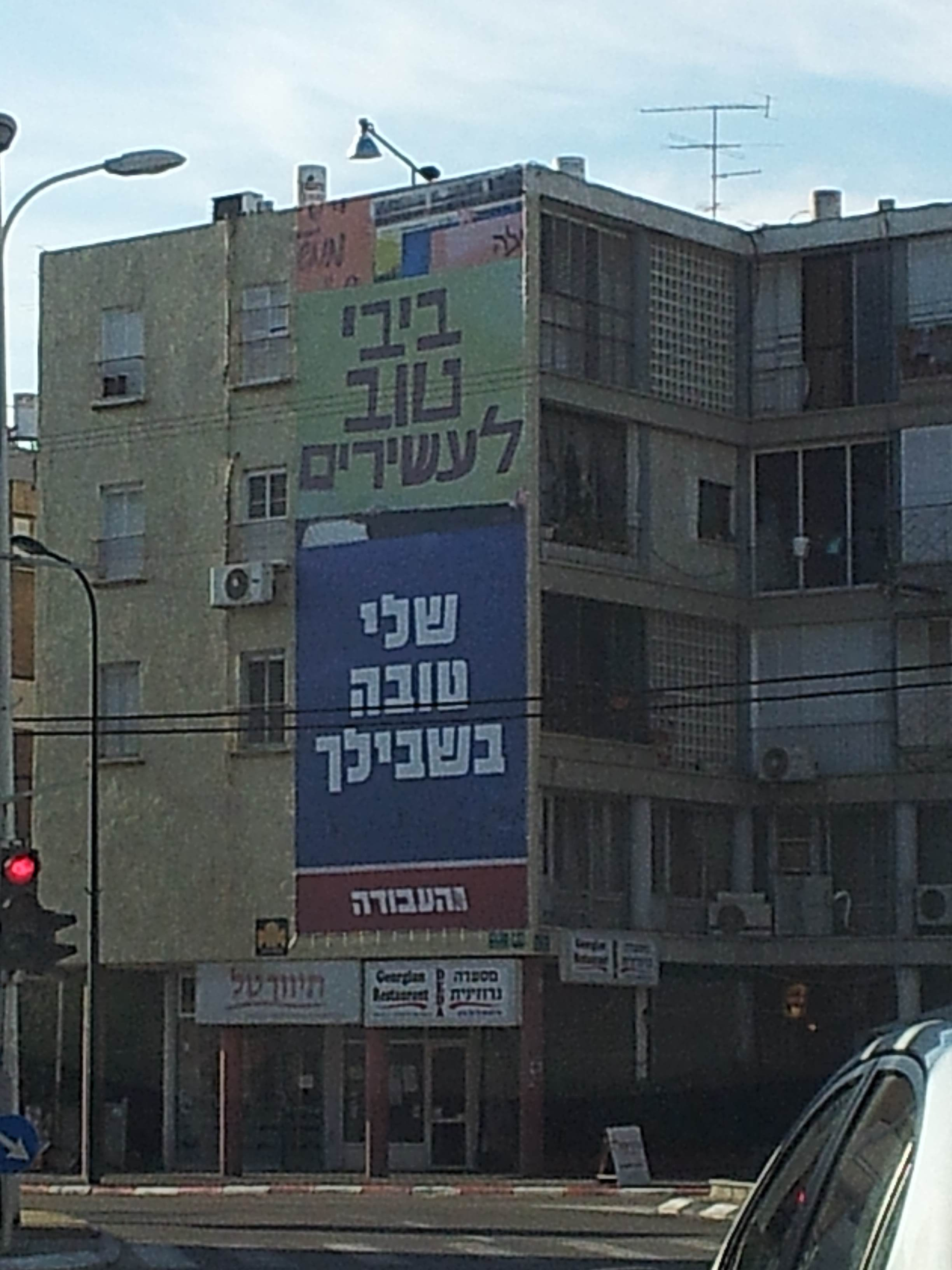 Haavoda election poster in Givatayyim. Dec 2012